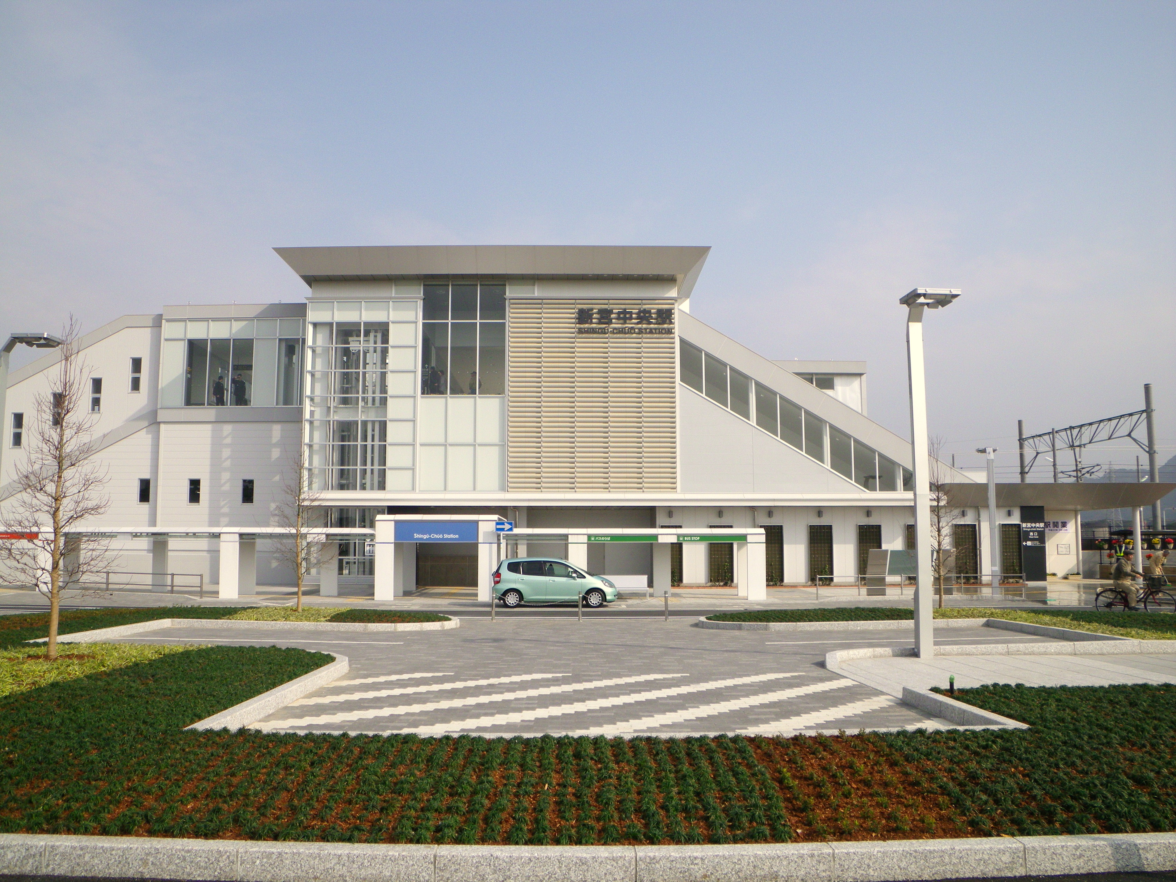 Kyushu Railway Company Kagoshima Main Line Shingu-Chuo Station (East corner) 1323-2 Kaminofu, Shingu Town, Fukuoka, Japan